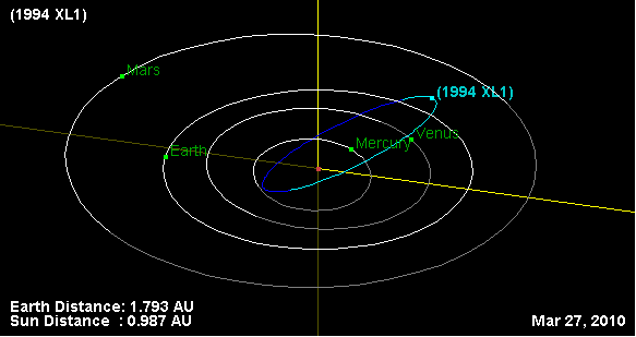 1994 XL1 orbit